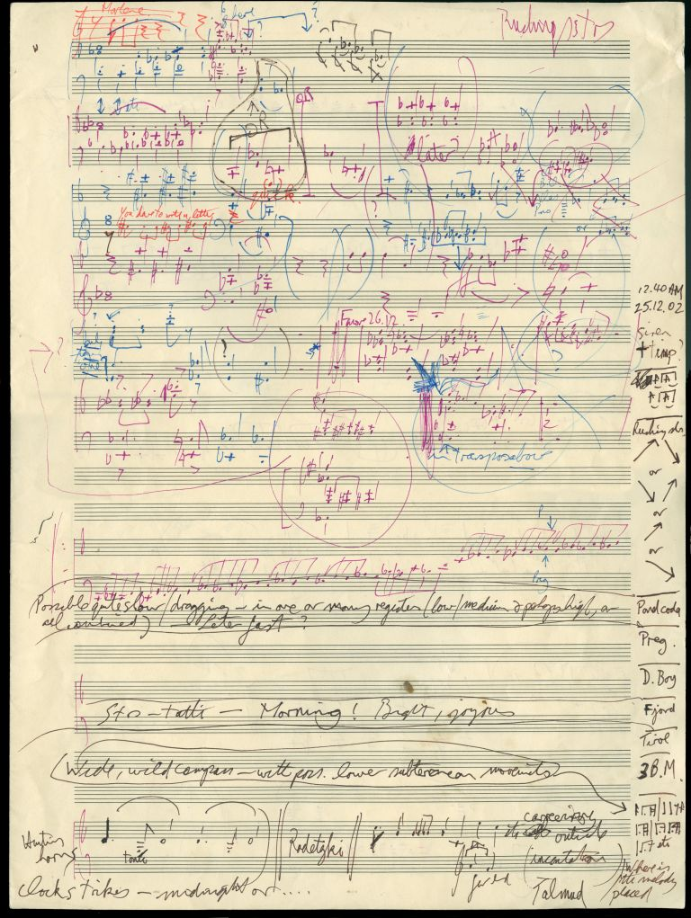 Composer's sketch for opera The Bitter Tears of Petra von Kant (2005)